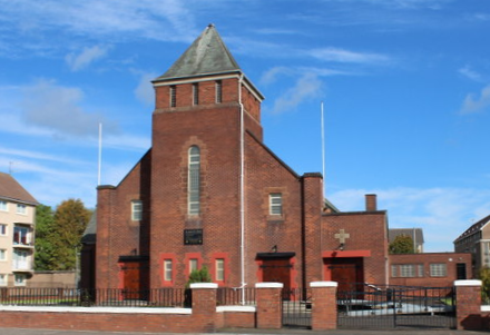 Architect Charles W Gray